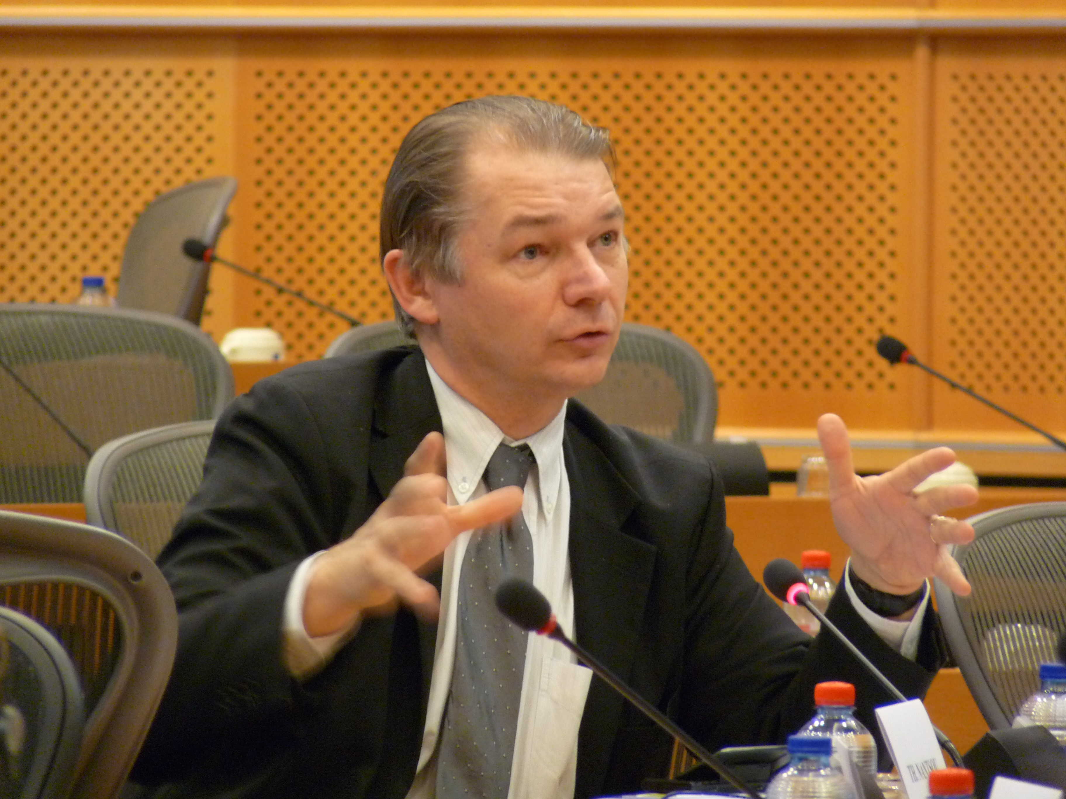 Philippe Lamberts, belgian MEP (Greens-EFA), during a conference in the European Parliament.